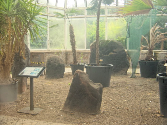 The Calder Stones, Calderstones Park. Home of the ancient Calderstones chambered tomb found nearby in Allerton which is thought to date from the late neolithic/early bronze age. Carved stones from this period are very rare and few exist in England and Wales. Little is known about the Calderstones until the 1800's when it was reported that, "...in digging about them, urns made of the coarsest clay, containing human dust and bones, have been discovered, there is reason to believe that they indicate an ancient burying- place". When a road was being widened they dug down into the mound they found more of the stones, and some were marked with spiral and cupmarks. It was reported that “When the stones were dug down to, they seemed rather tumbled about in the mound. They looked as if they had been a little hut or cellar. Below the stones was found a large quantity of burnt bones.In 1845 the stones were re-erected inside low circular wall which still lies at the entrance to the park opposite Druids Cross Road. It was originally believed that they were once a circle but it is fairly certain that the Calder Stones were originally part of a burial chamber. The six large stones recovered may have formed the central chamber. One, with cupmarks, looks like a capstone shape. In 1964 the six stones were moved to their present site in the Harthill Greenhouse in Calderstones Park where they were erected in random order and unfortunately not always easy to access (photo taken through window).